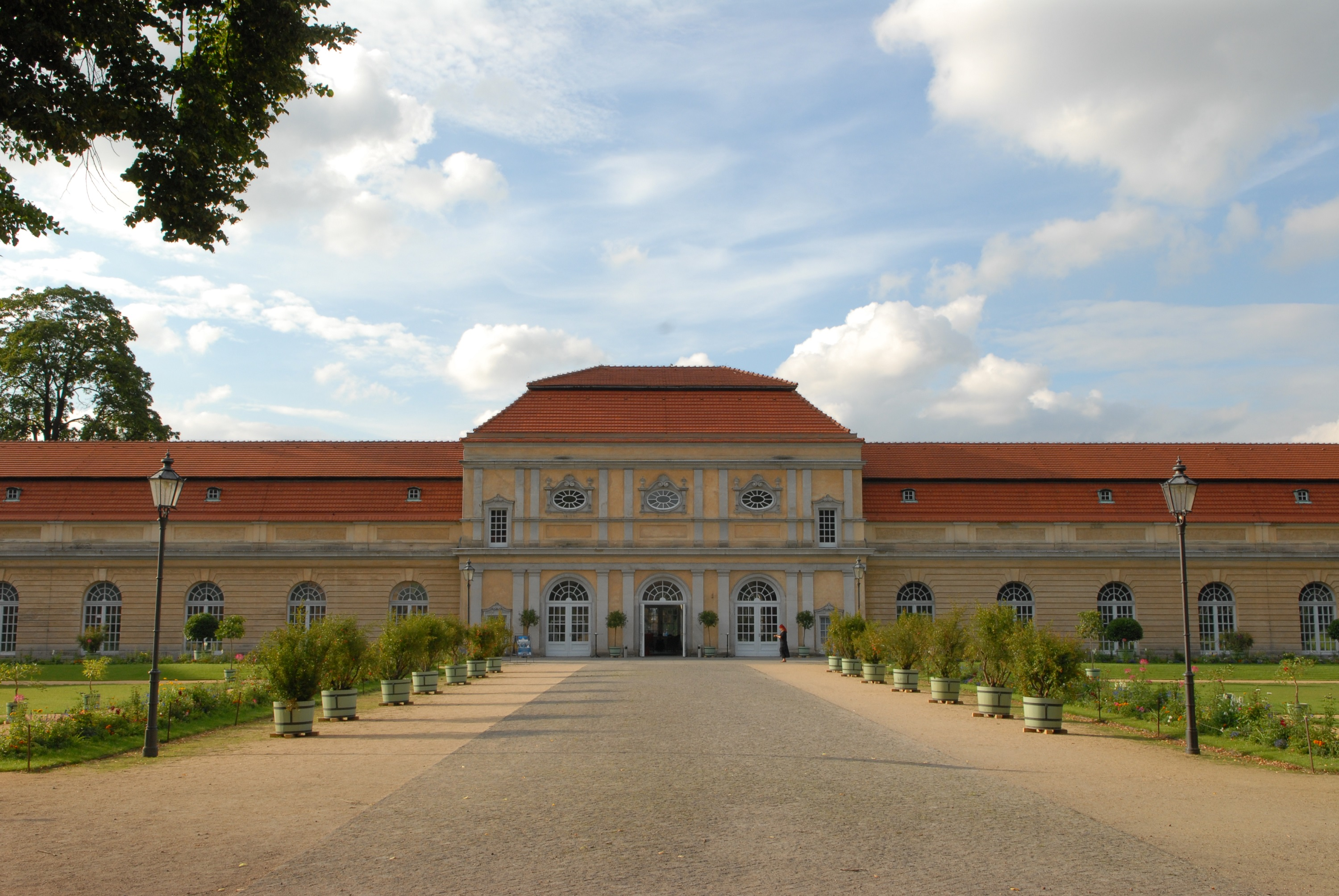 Great Orangery Charlottenburg Palace